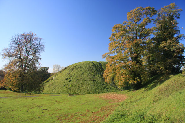 Thetford Castle, or Castle Mound Set in the pleasant public grounds of Castle Park, this splendid motte once sported a castle, but there is no sign of it now. See Thetford_Castle for more information.